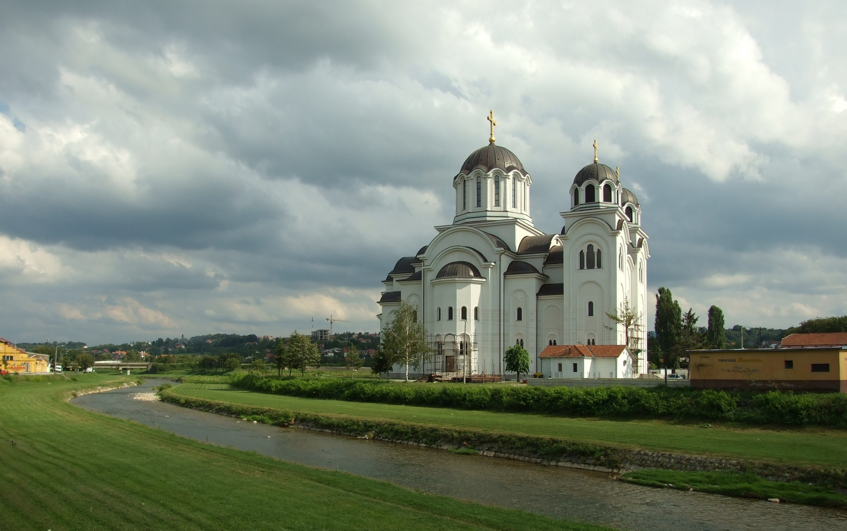 Temple of the Holy Sepulchre on confluence of Gradac and Kolubara rivers in Valjevo, Kolubara District, Serbia